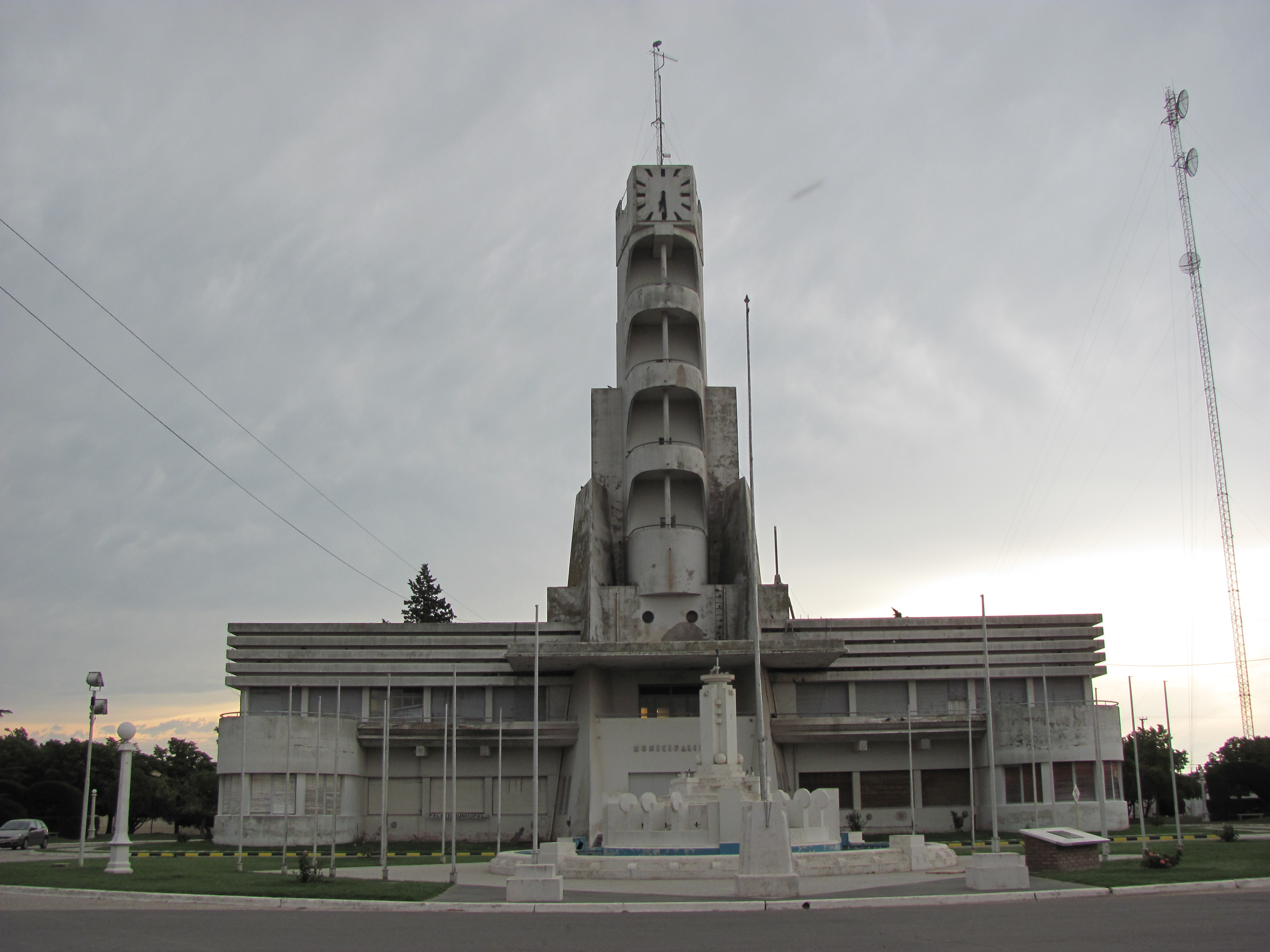 Municipalidad de Guamini